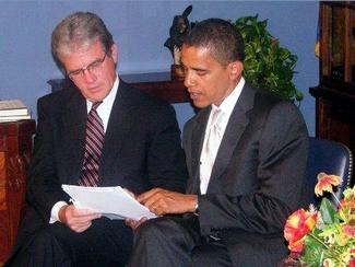 "Dr. Coburn and Senator Obama look over the Federal Funding Accountability and Transparency Act"